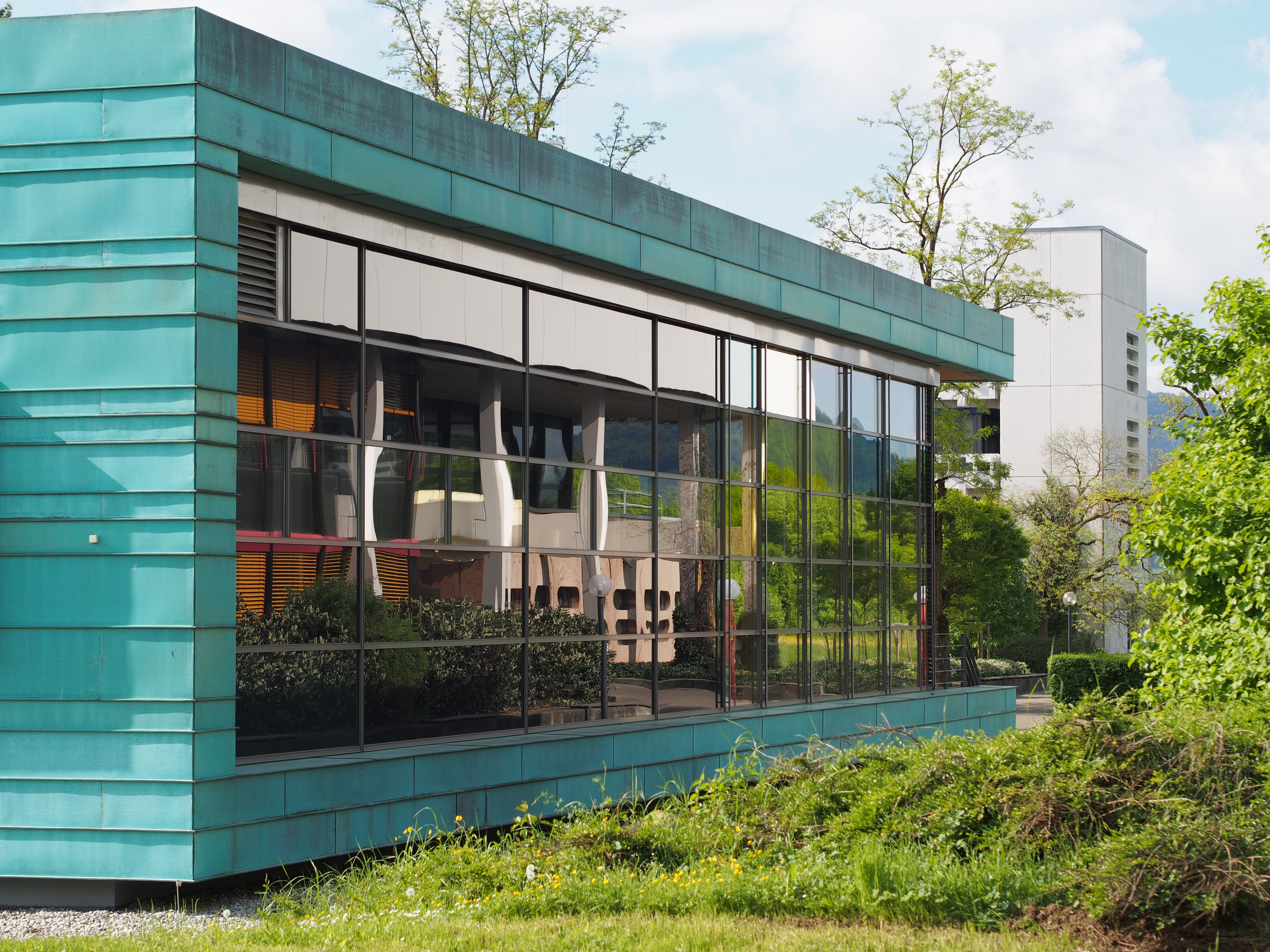 College of Education, Refectory, Schwäbisch Gmünd